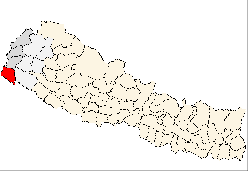 FrenchCarte de localisation dudistrict de Kanchanpur(wp-FR),au Népal (wp-FR).EnglishLocation map ofKanchanpur District(wp-EN),in Nepal (wp-EN).